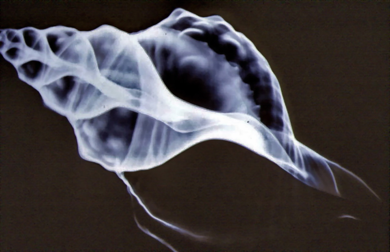 Radiology of seashells : Triton